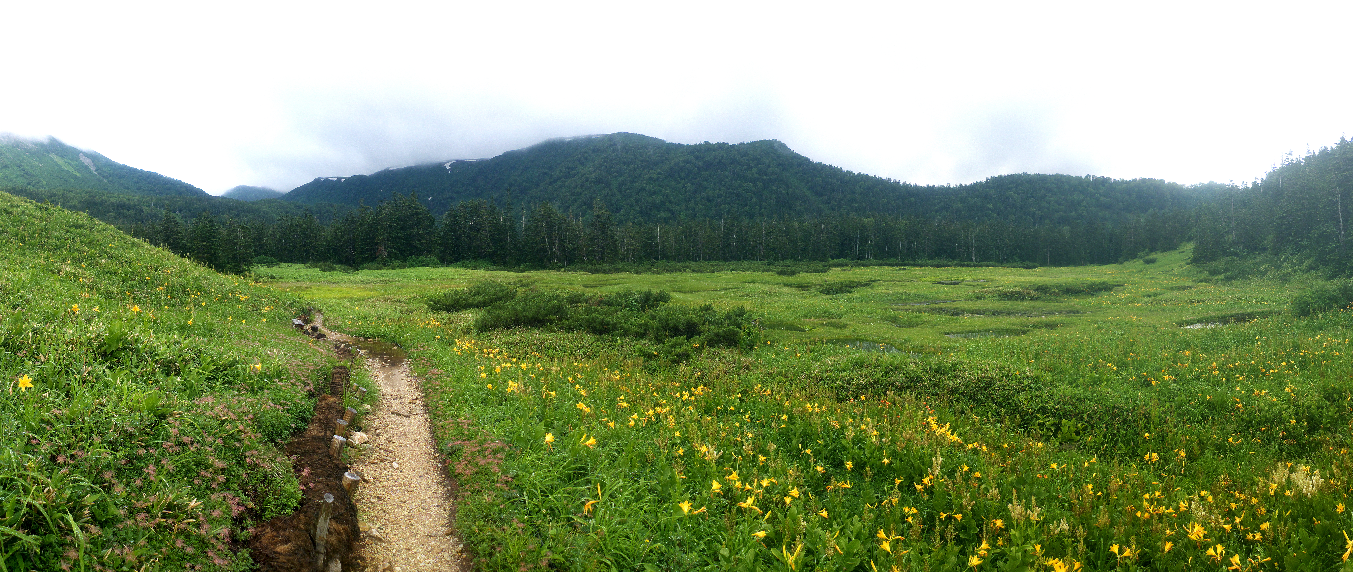 View of Takamagahara plateau in the Hida Mountains, Japan